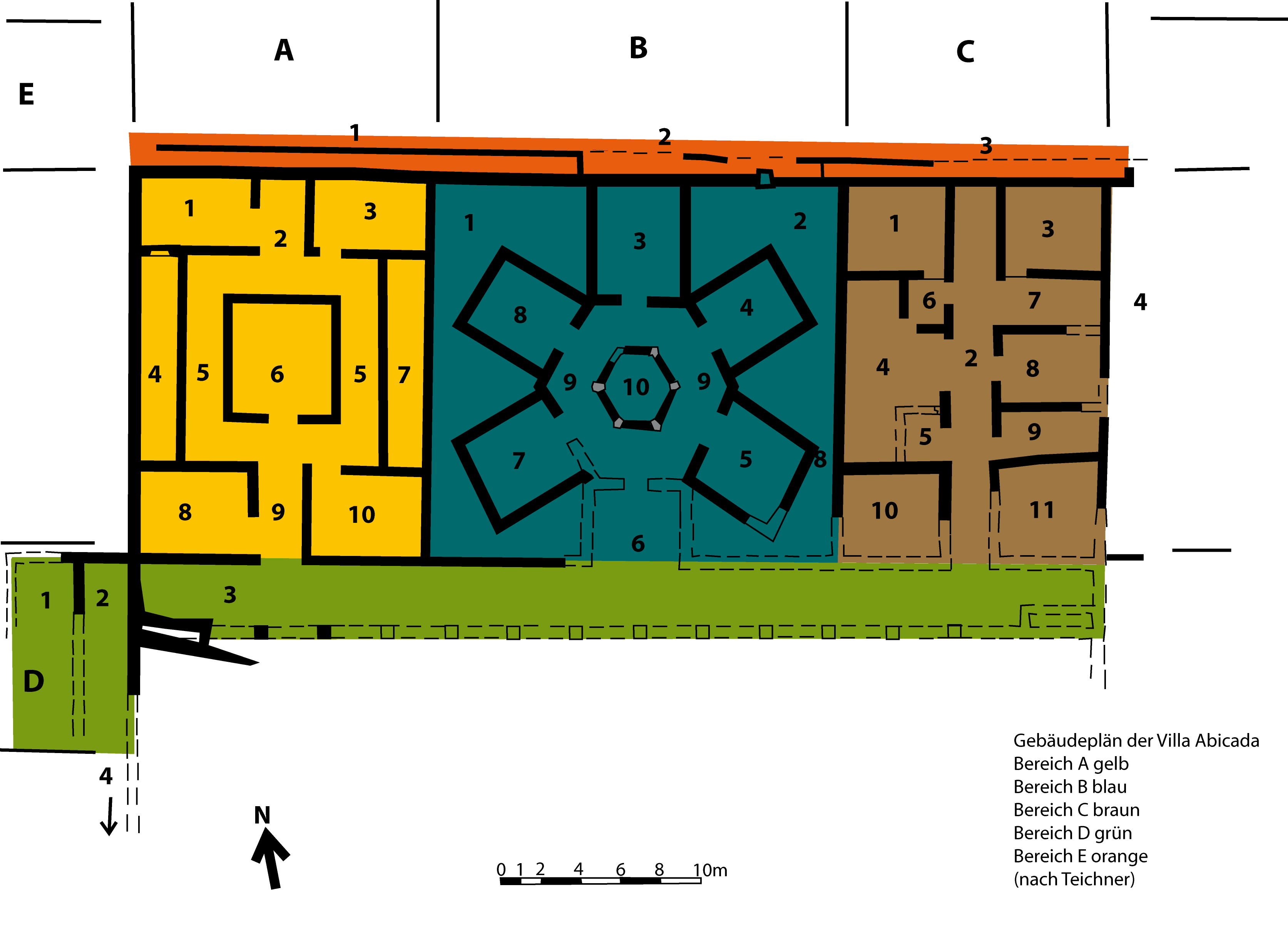 Roomplan of the roman villa of Abicada; Area A yellow; Area B blue; Area C brown; Area D green; Area E orange (after Teichner)